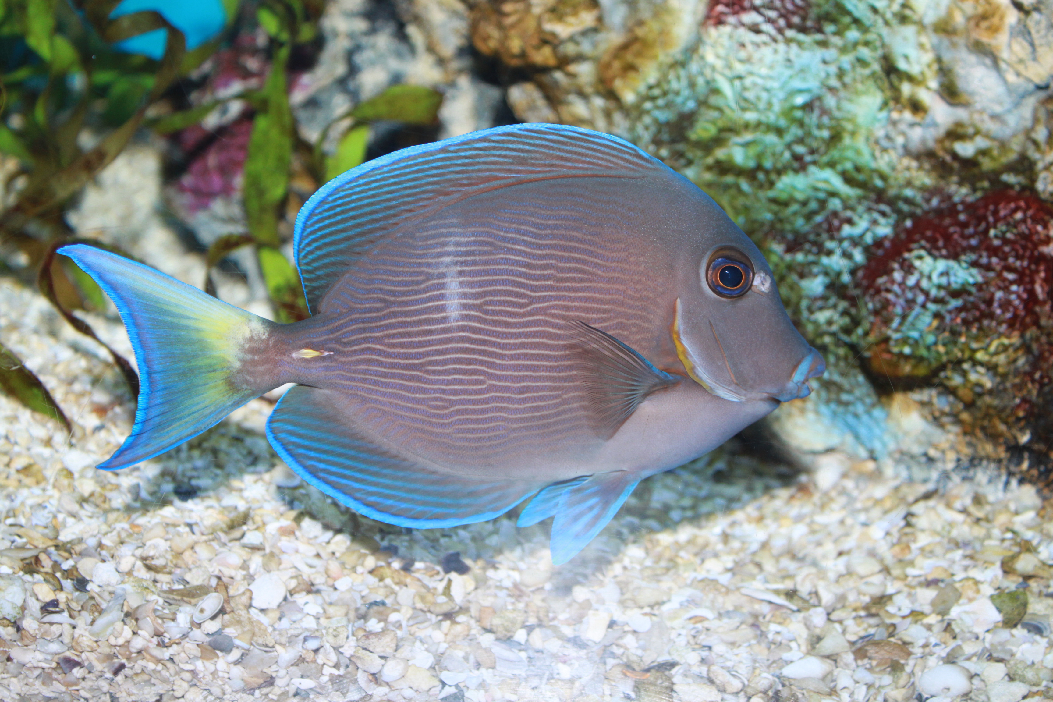 Blue tang surgeonfish - Acanthurus coeruleus